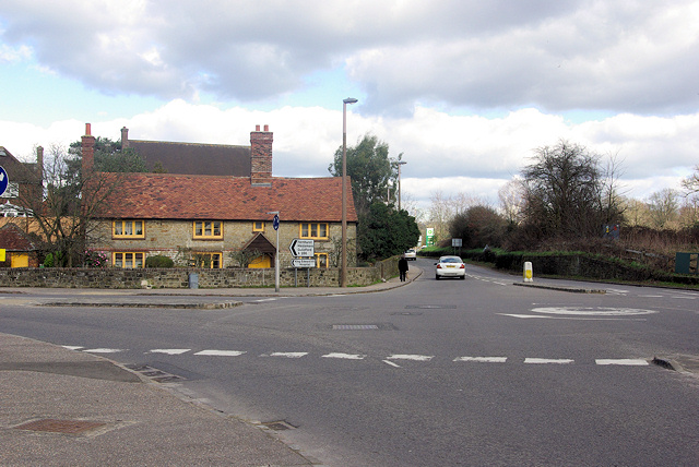 A286/A272 Junction, Easebourne. The A286 turns left. The yellow paint scheme of the cottage on the corner marks it as owned by the Cowdray Estate.